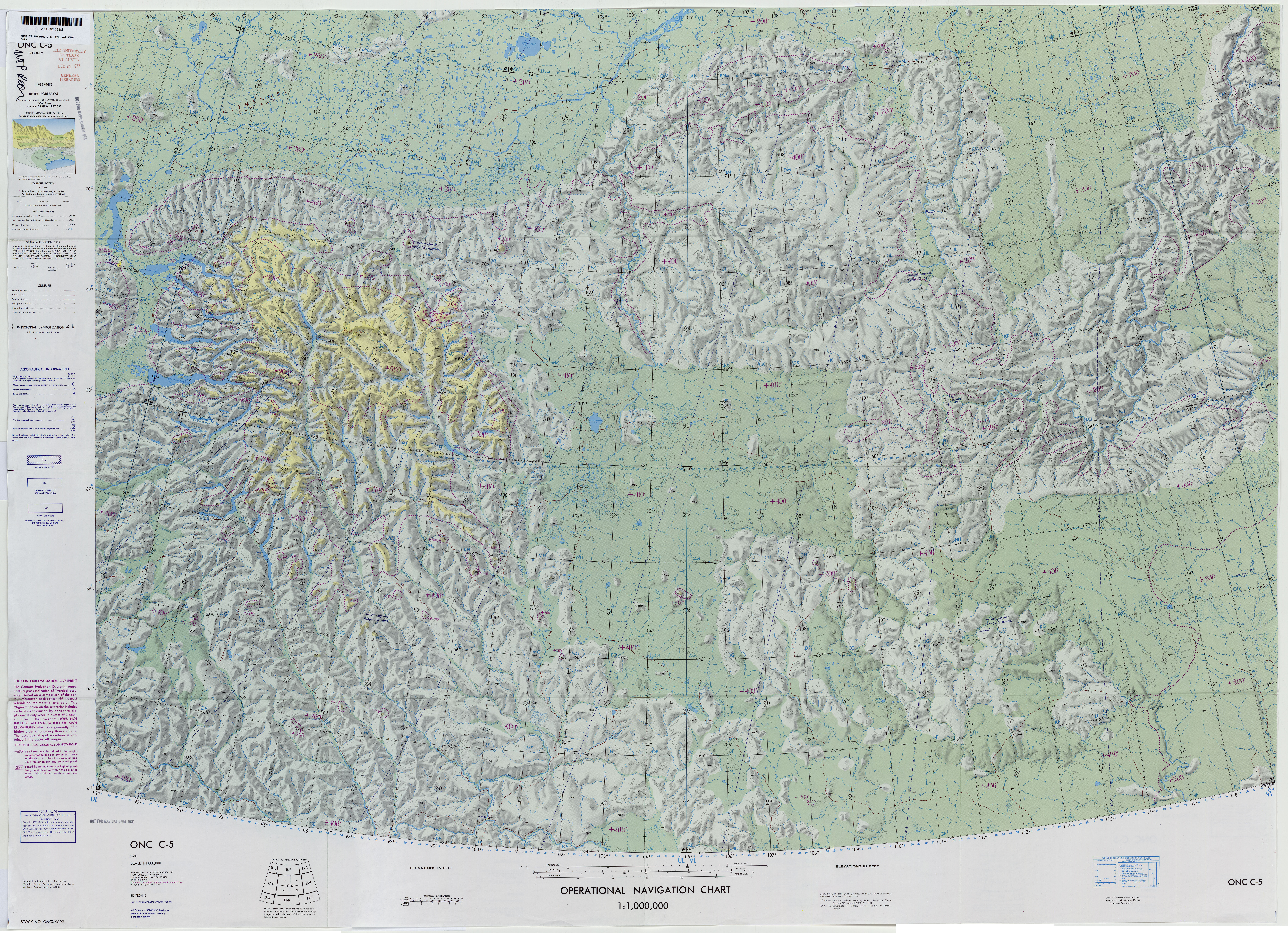 1:1,000,000 scale Operational Navigation Chart, Sheet C-5, 2nd edition. Covers U.S.S.R. Lambert Conformal Conic Projection. Standard Parallels 65 20N and 70 40N. Center longitude 105E.